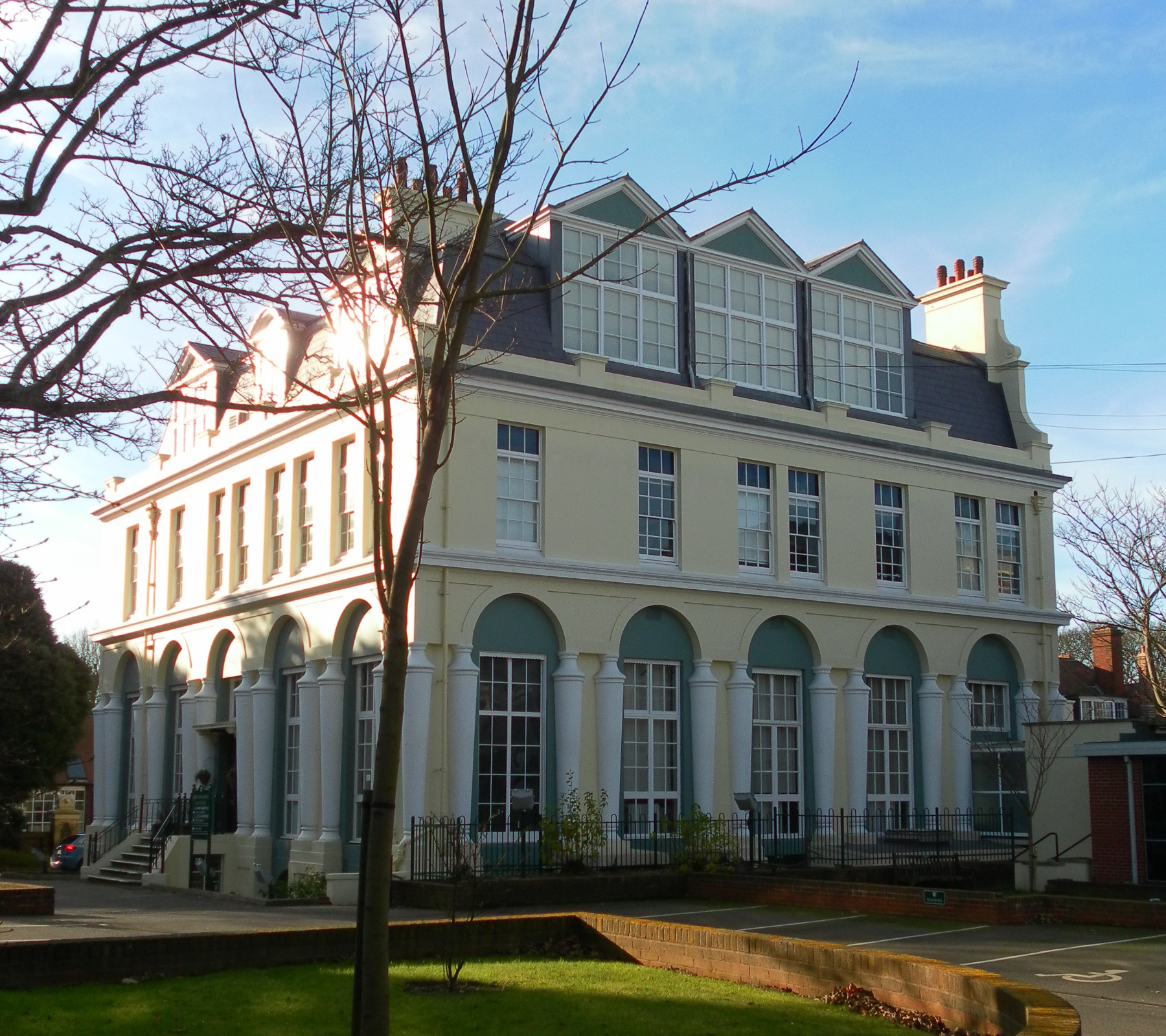 Brighton & Hove High School (The Temple building), Temple Gardens, Brighton, City of Brighton and Hove, England. Built in 1819 for Thomas Read Kemp MP, the local Member of Parliament, this building now houses part of the private Brighton & Hove High School. Listed at Grade II by English Heritage (IoE Code 486696)